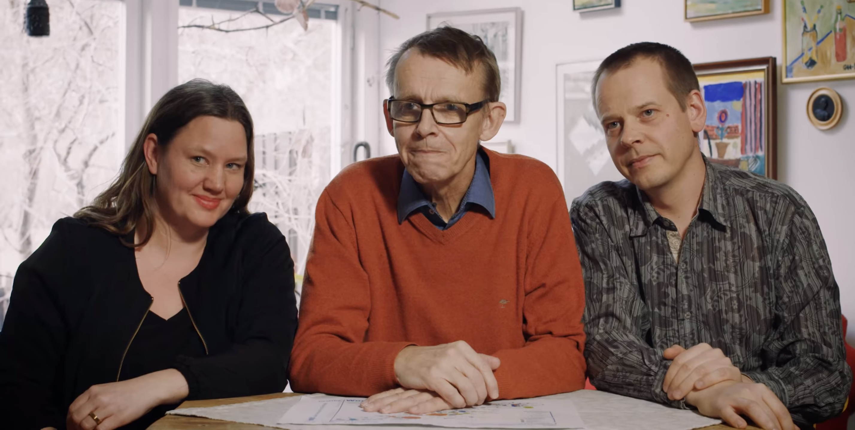 The three authors of Factfulness explain why they decided to write the book that is soon available in 24 languages. MORE ABOUT FACTFULNESS FOLLOW US ABOUT THE FILM The clip with Hans was filmed March 2016, by Momento Film, The clip with Anna and Ola was filmed a late night in March 2018 with Annas iPhone. Produced by Anna Rosling Rönnlund, Gapminder Foundation LICENSE This film is free to use and distribute. -- Creative Commons Attribution 4.0 International Please copy and redistribute this film in any medium or format You must include the following attribution to Gapminder: "Free material from Full license text